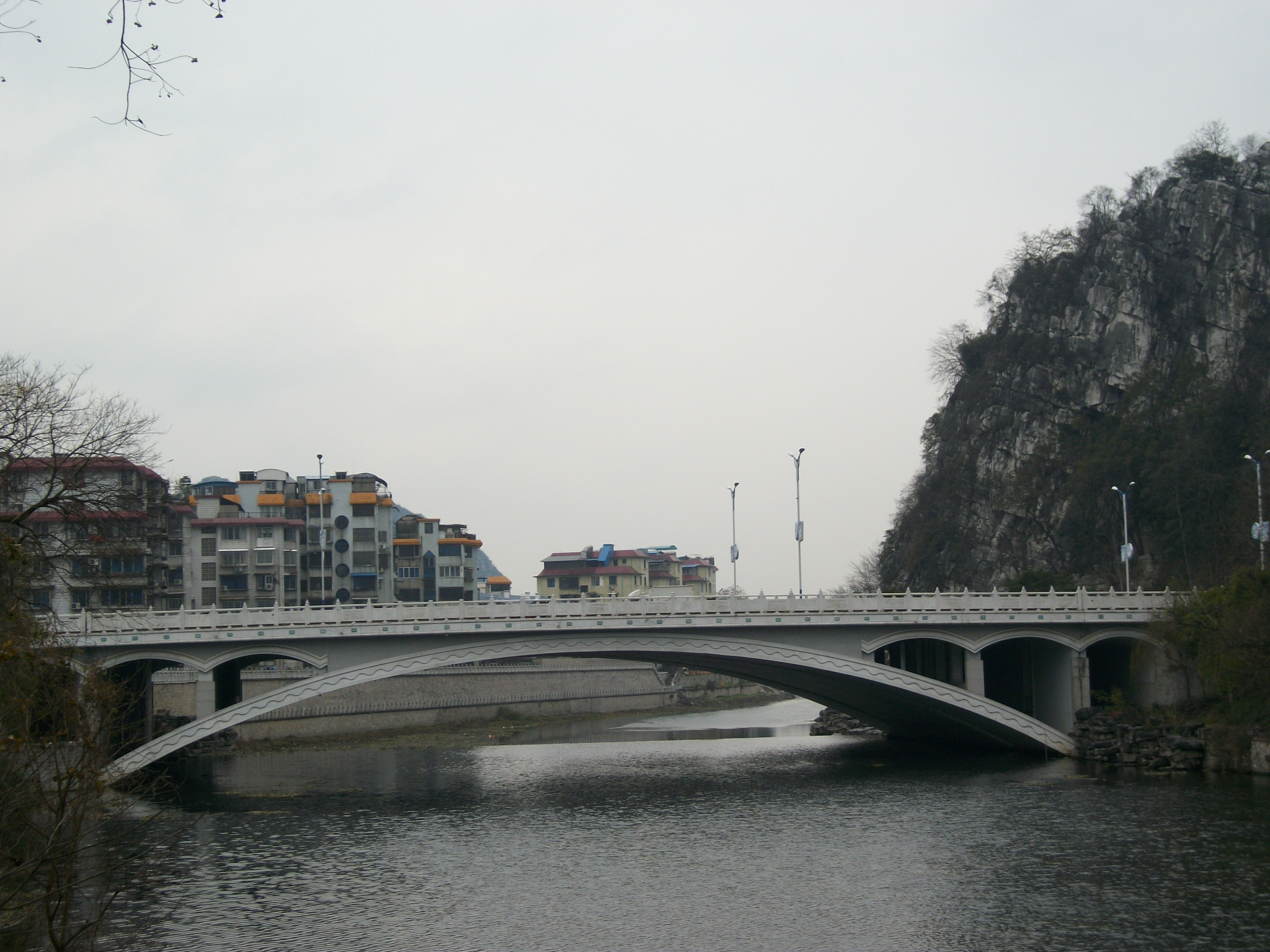 Zhishan Bridge, Guilin.